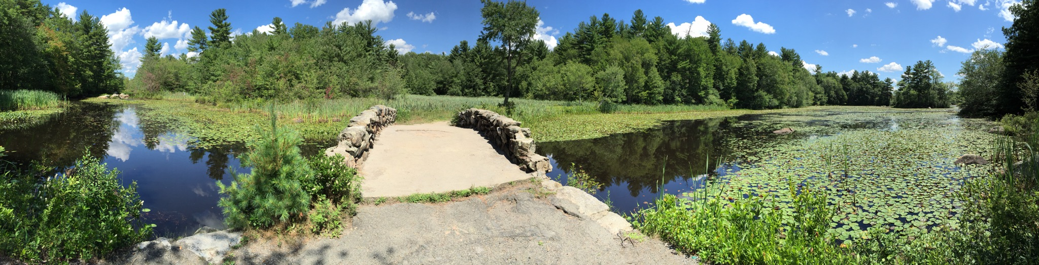 Hopedale Pond, Hopedale, Massachusetts. Panoramic shot, taken August 2, 2015.